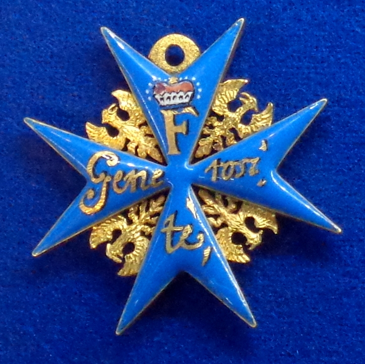 Order of Générosité (fr.: Ordre de la Générosité), badge 1730-1740. Prussia. The exhibition of the Tallinn Museum of Orders of Knighthood, Estonia.